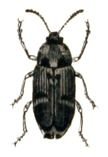 Bruchus pisorum, from Calwer's Käferbuch, Table 30, Picture 12. Taxonomy was updated to 2008, using mostly the sites Fauna Europaea and BioLib. Please contact Sarefo if the determination is wrong!